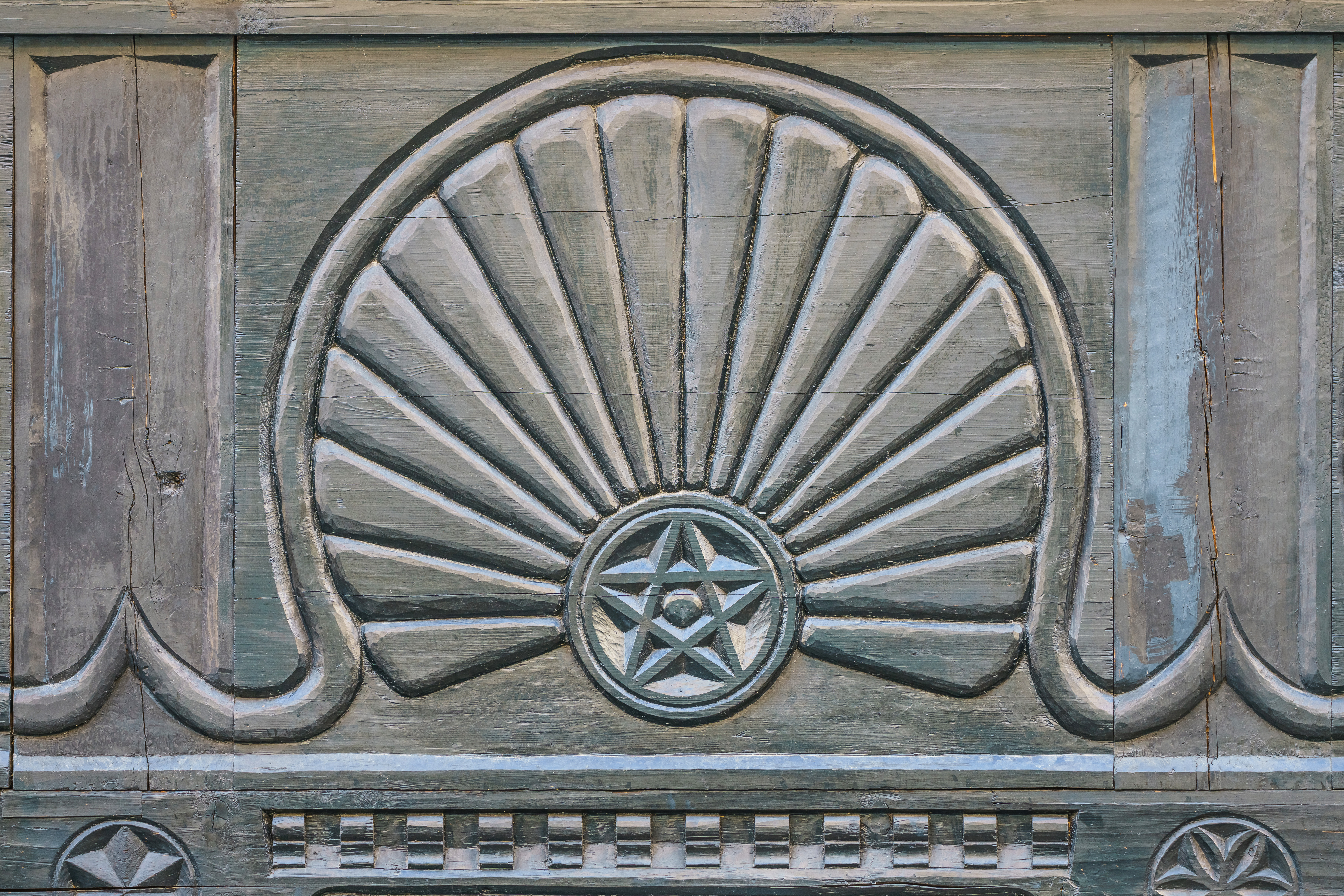 Detail of a house in the Old Town in Quedlinburg, Germany